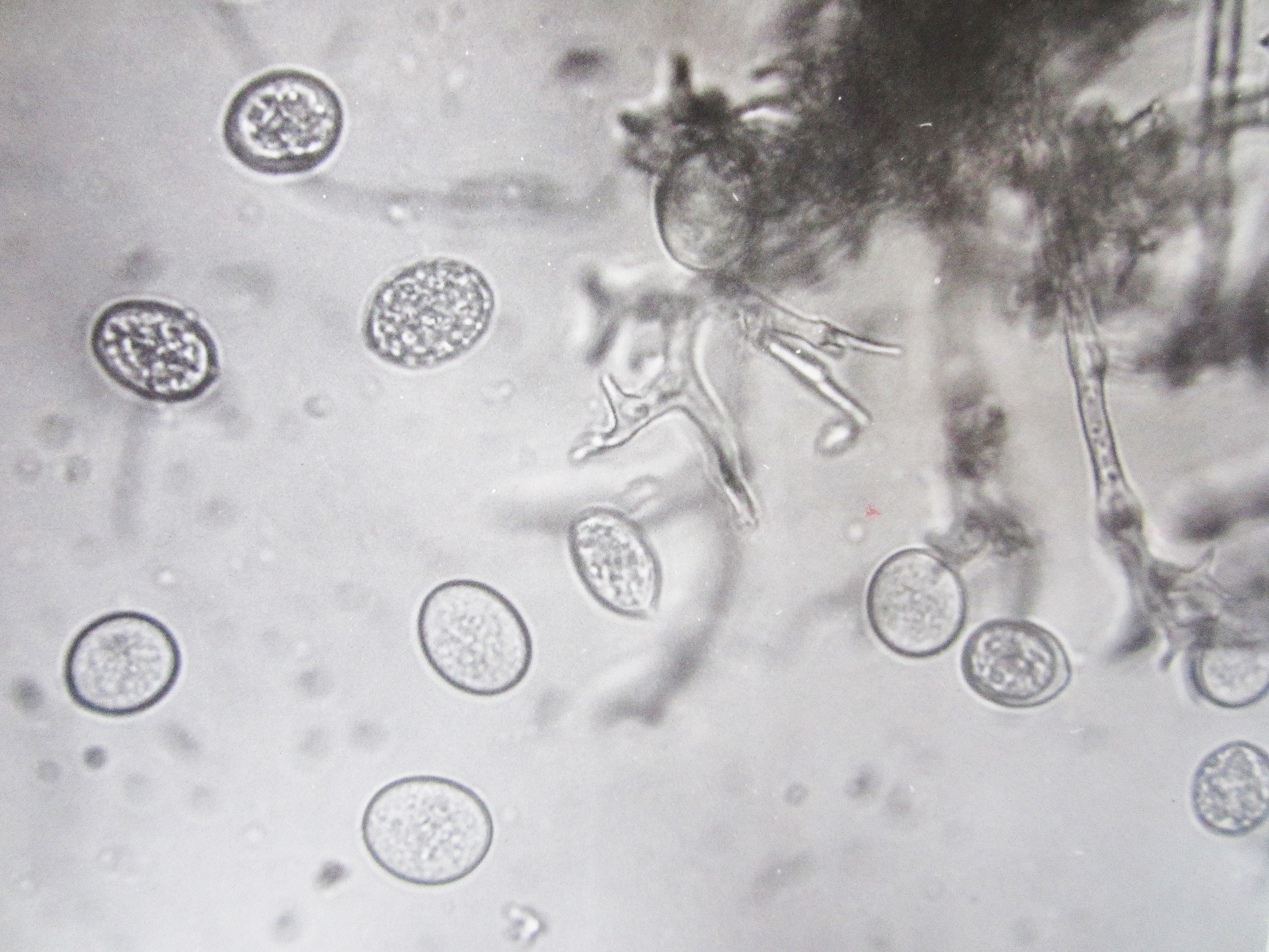 Conidia of Peronospora tabacina. They have lemon form, discolored, or bright yellow with different size 10-25x10-22μm.The conidia germinate in damp conditions and at the optimum temperature of 15-23 (oC), when there are the most outbreak of disease among tobacco.